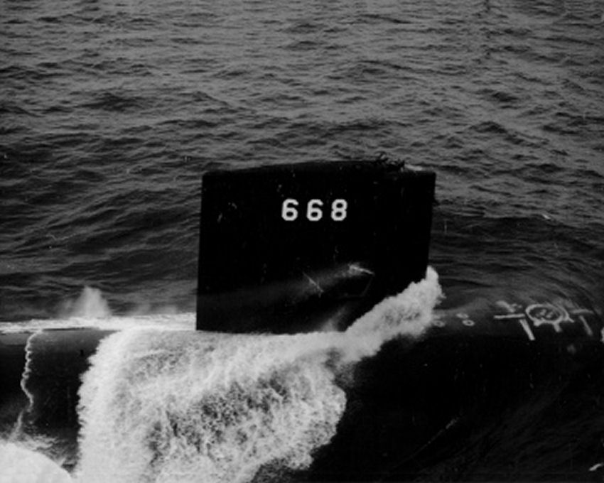 United States Navy attack submarine on her sea trials off Virginia